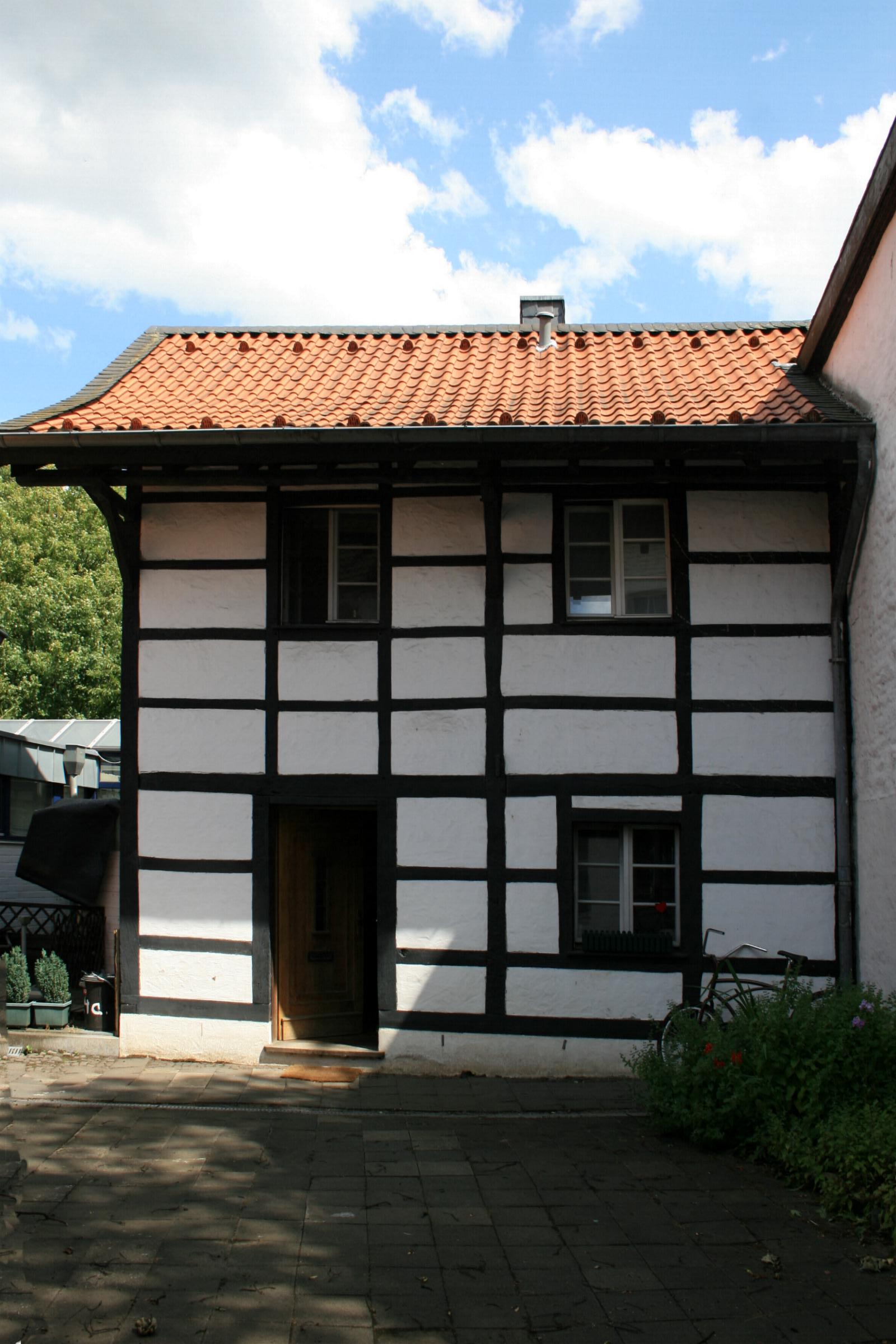 Cultural heritage monument No. G 012 in Mönchengladbach